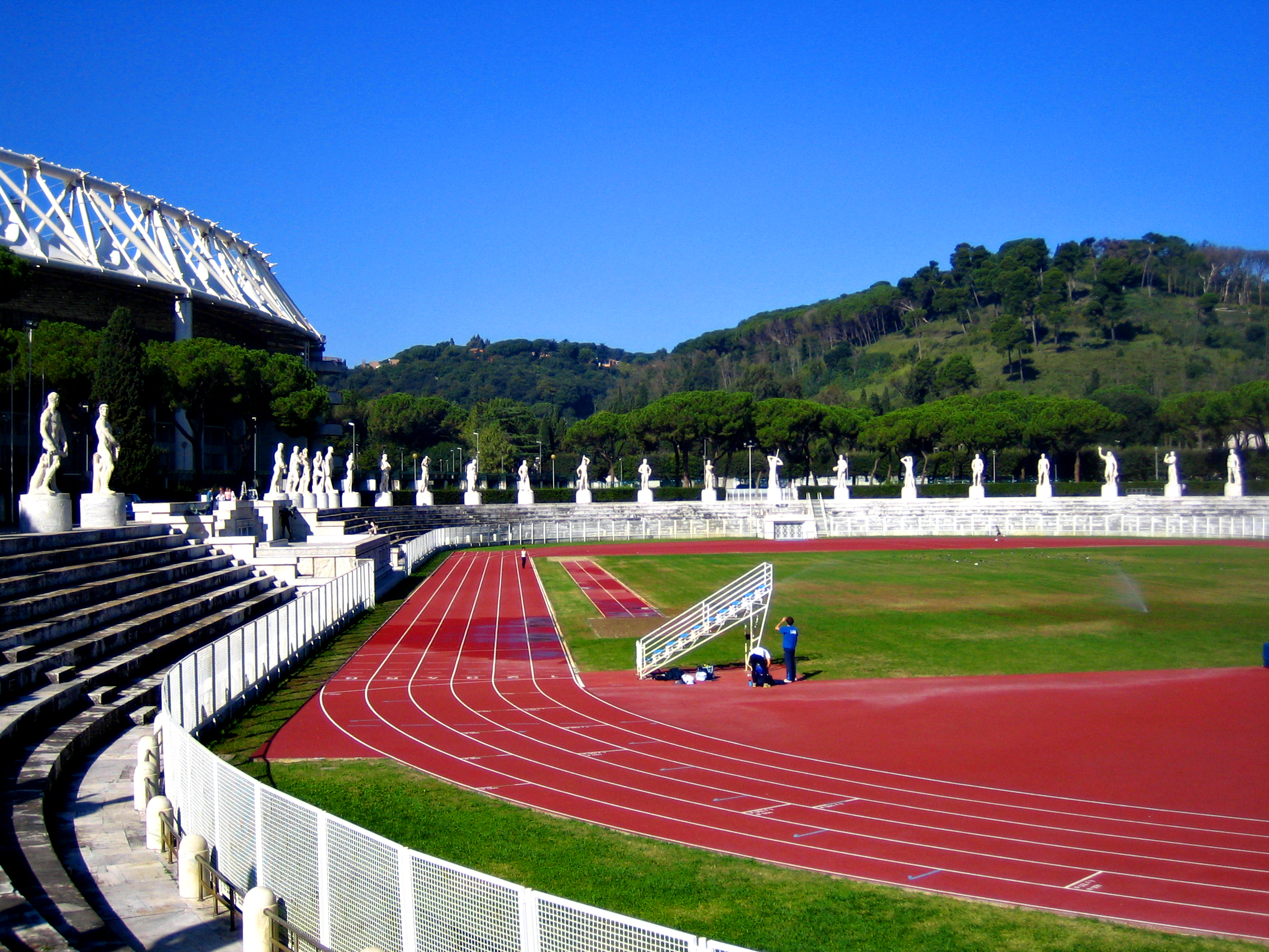 With the Stadio Olimpico in the background to the left.